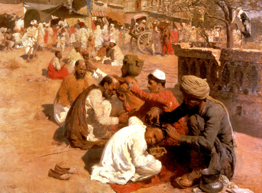 Indian Barbers Saharanpore